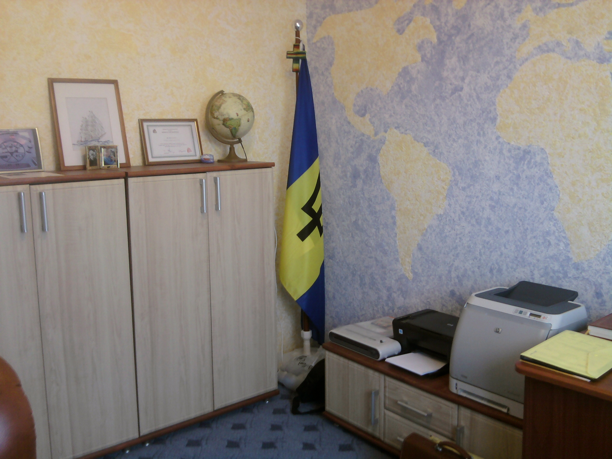 The Office of Barbados Ship Registrar in Kosivka